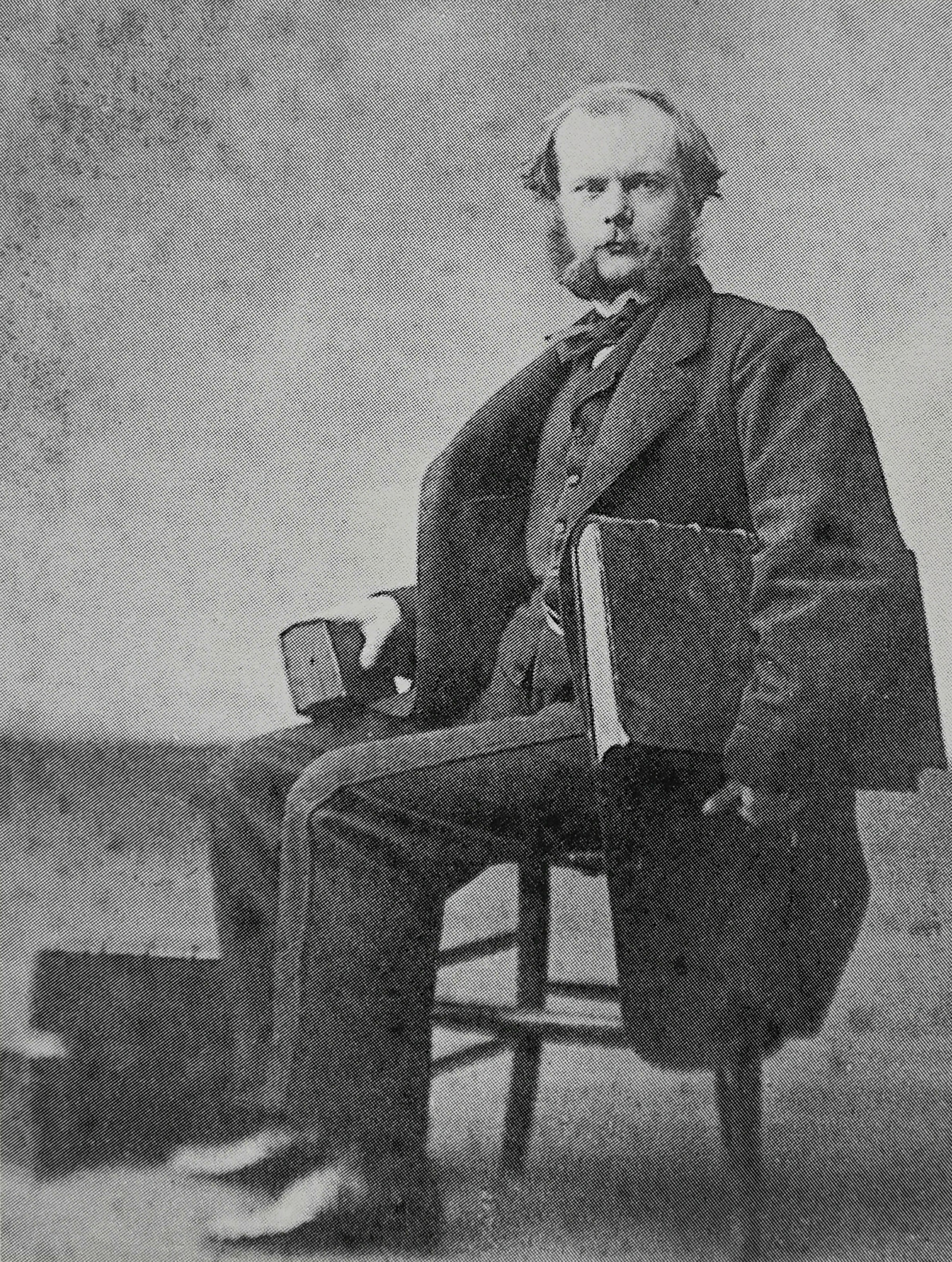 Anonymous photograph of the librarian Ferdinand vander Haeghen (1830-1913) (private collection)